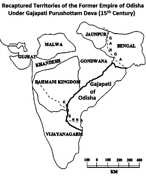 Recaptured Territory of Gajapati Purushottam Deva (15th Century)